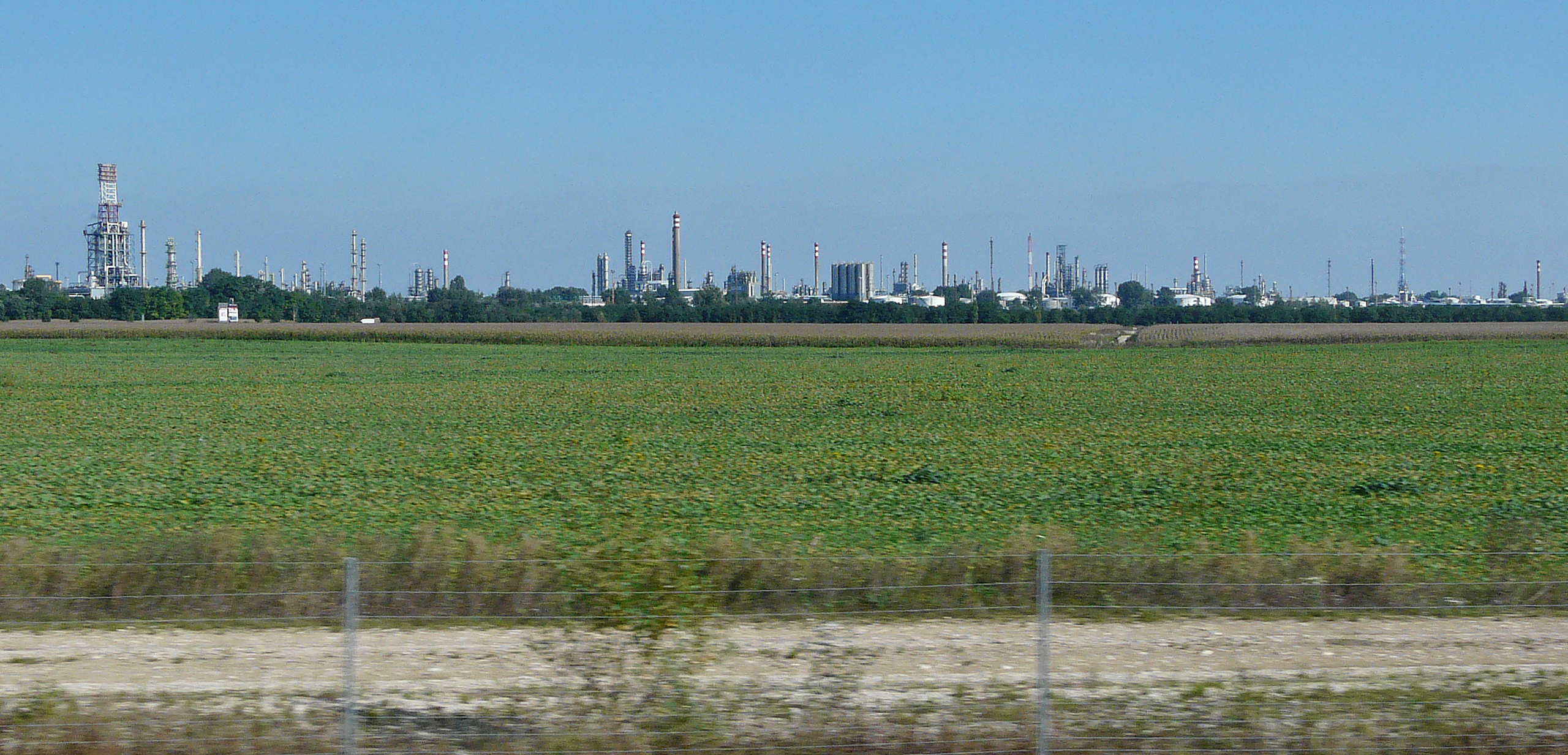 Oil Refinery at Százhalombatta, Central Hungary (from bus)